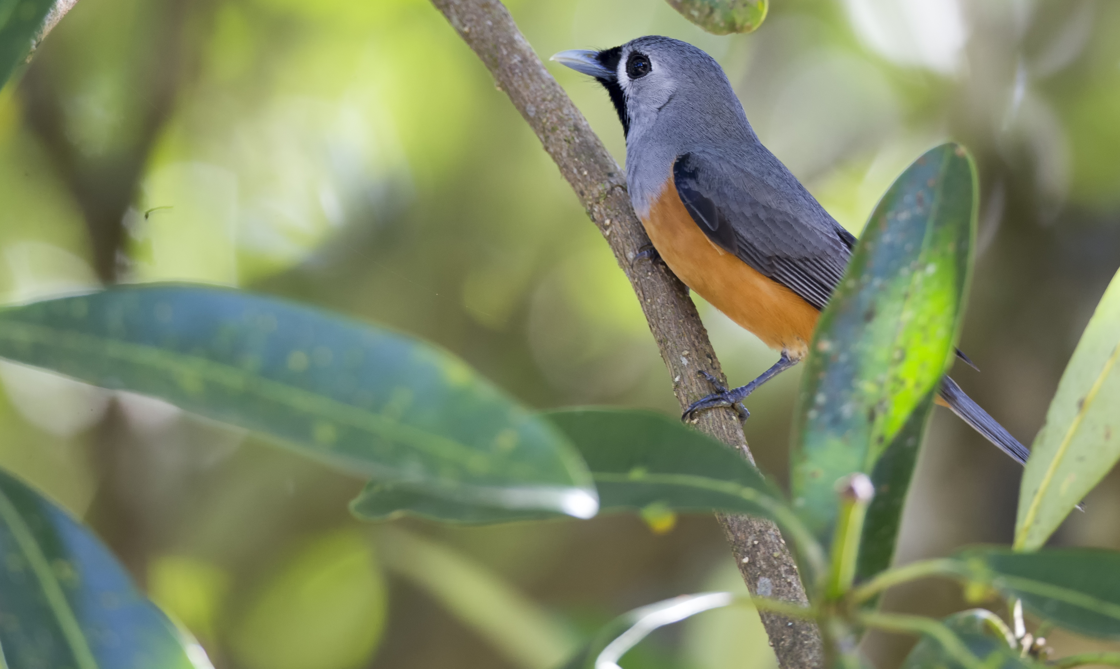 Dont know too much about these ones, first time for me. Seen at Malanda North Queensland